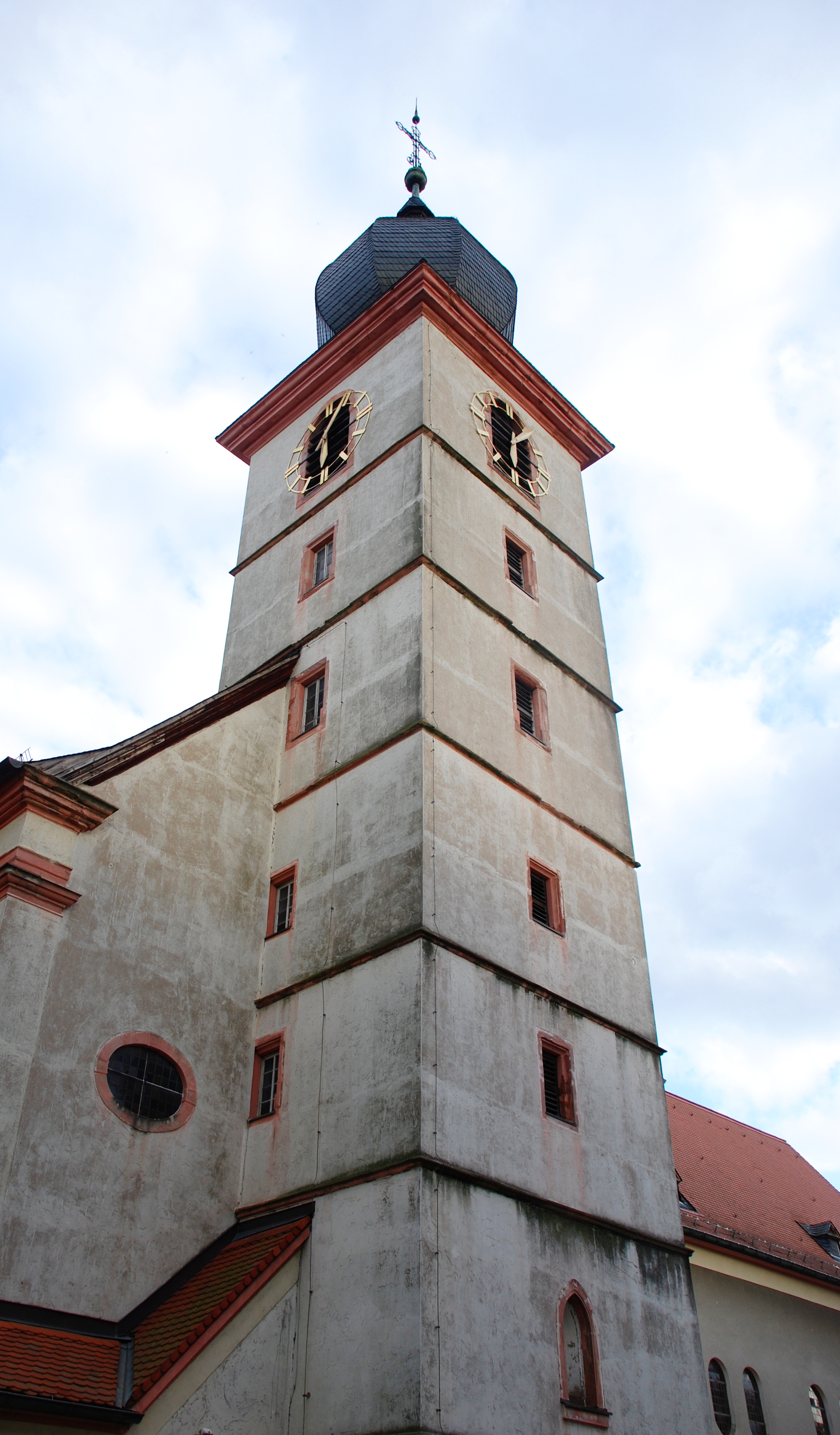 Church staple of the St. Michael church in Bürstadt